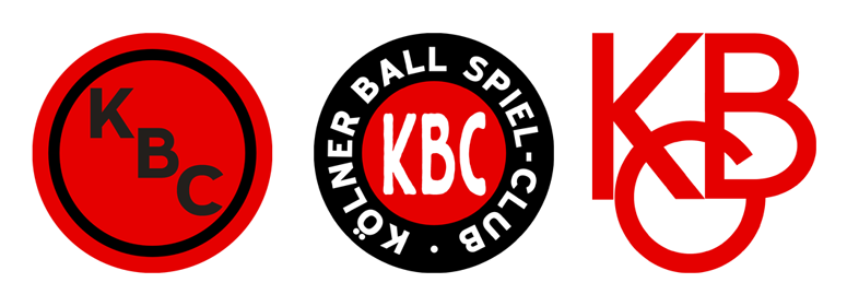 Historical logos of Kölner BC, predecessor of 1. FC Köln / German football team